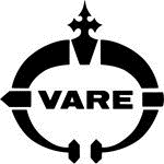 The logo of Vare ry, the student society of Archaeology students in Turku University, Finland